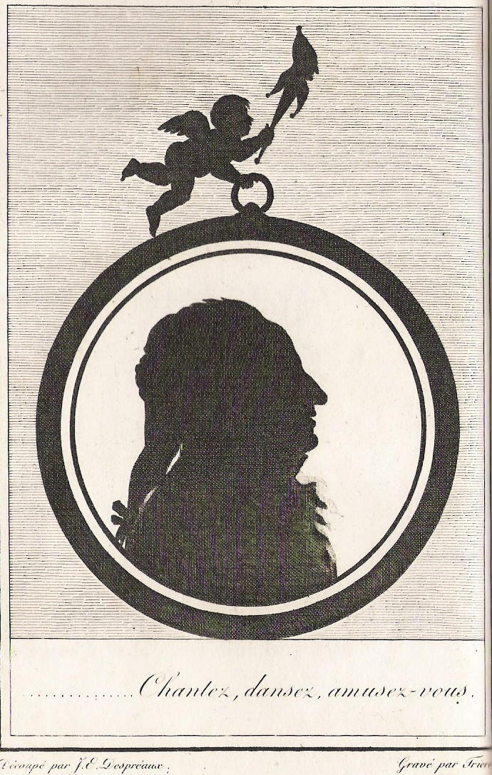 A cherub holding a jester's head wand. Inscription: "Sing, dance and have fun". [Silhouette] cut by Despréaux. Engraved by Friere.